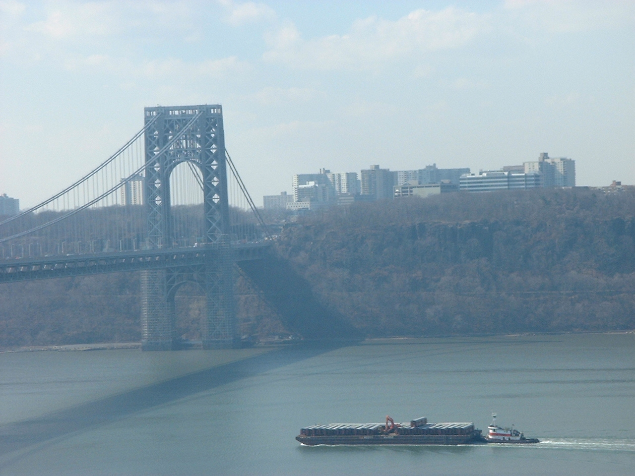 A barge load of retired New York City subway cars (Redbird trains) pass under the George Washington Bridge on the way to become an artificial reef.